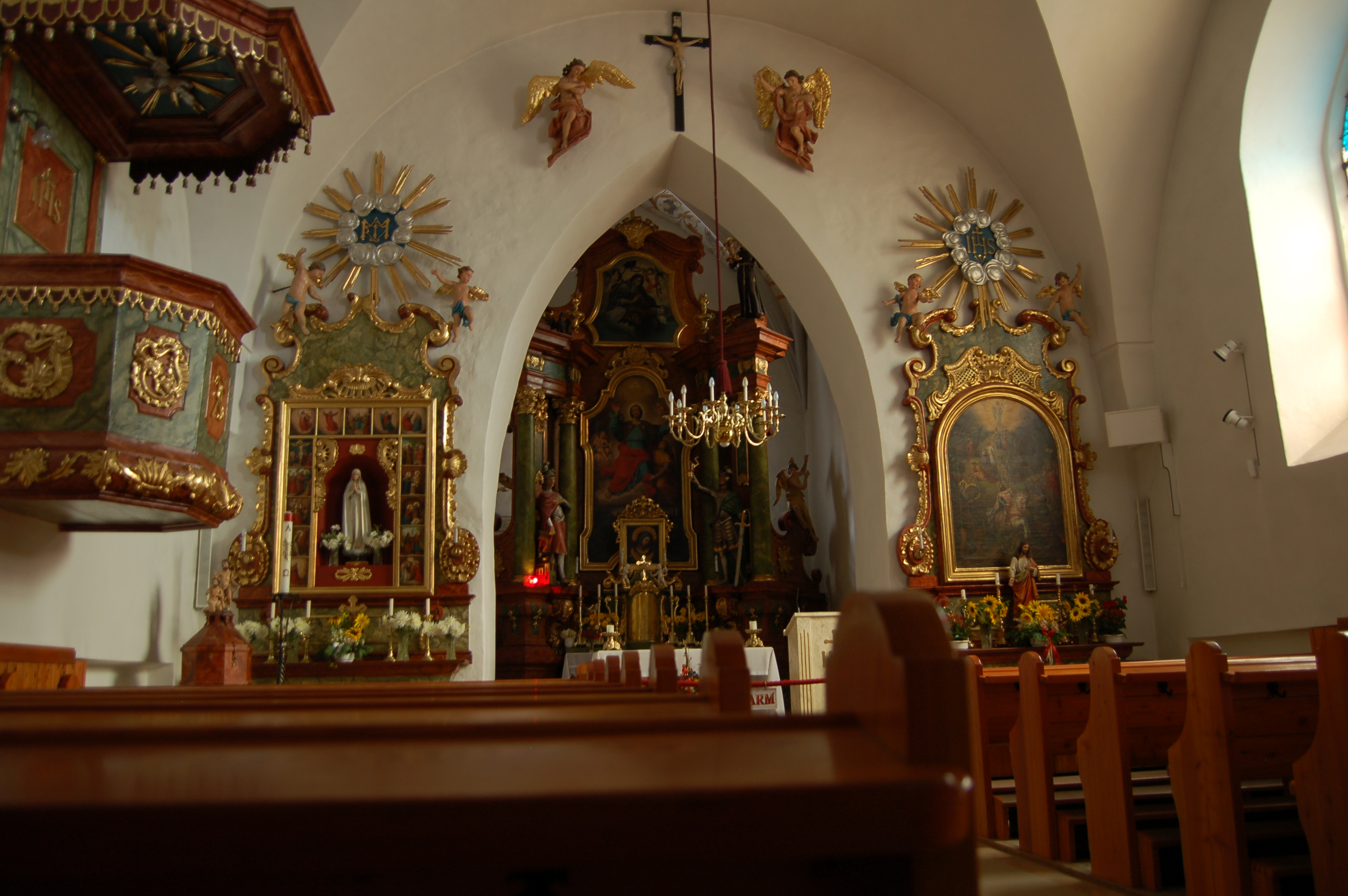 Interior of Saint James the Greater parish church in Lichtenegg, Lower Austria